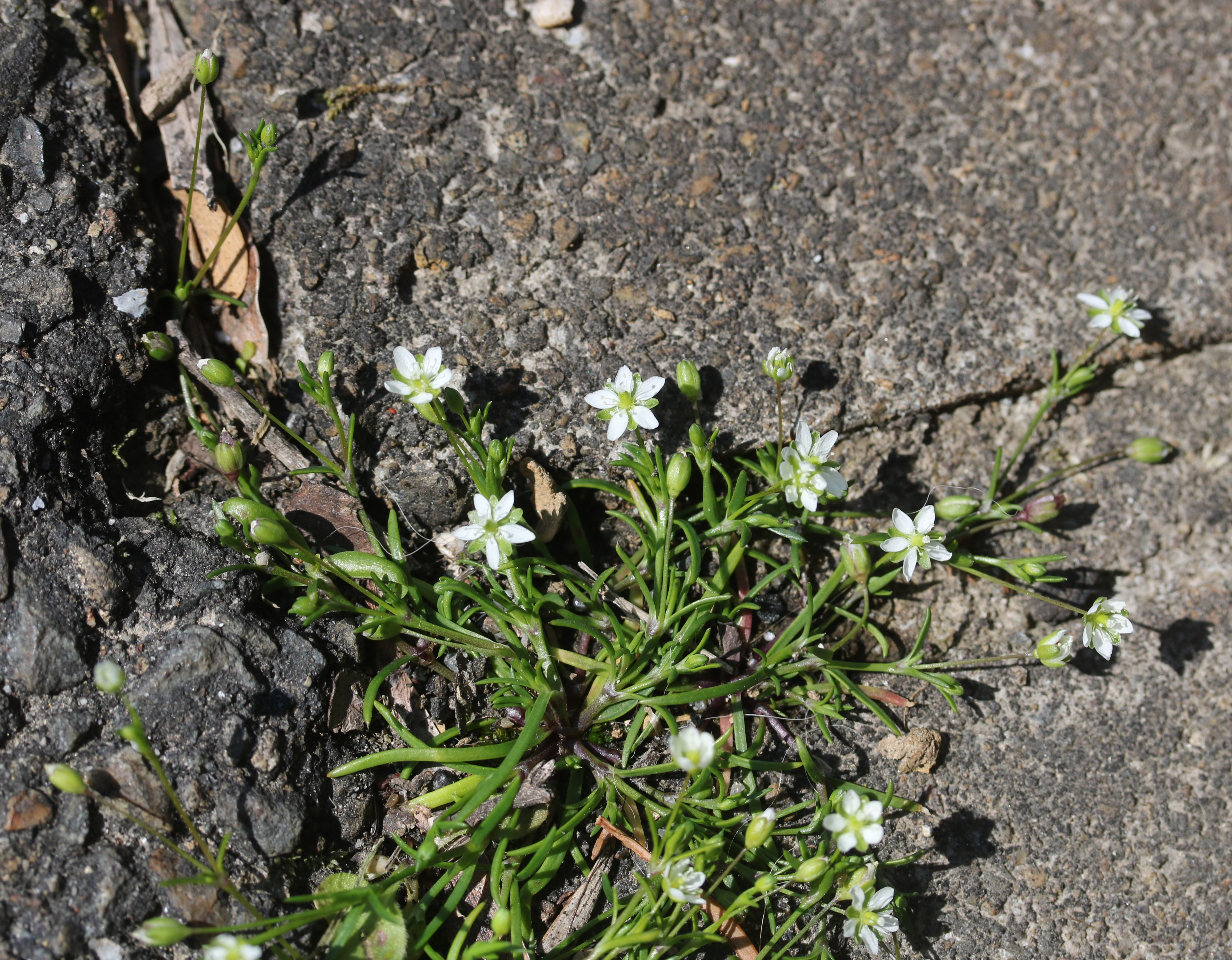 Sagina japonica in Aichi prefecture, Japan.